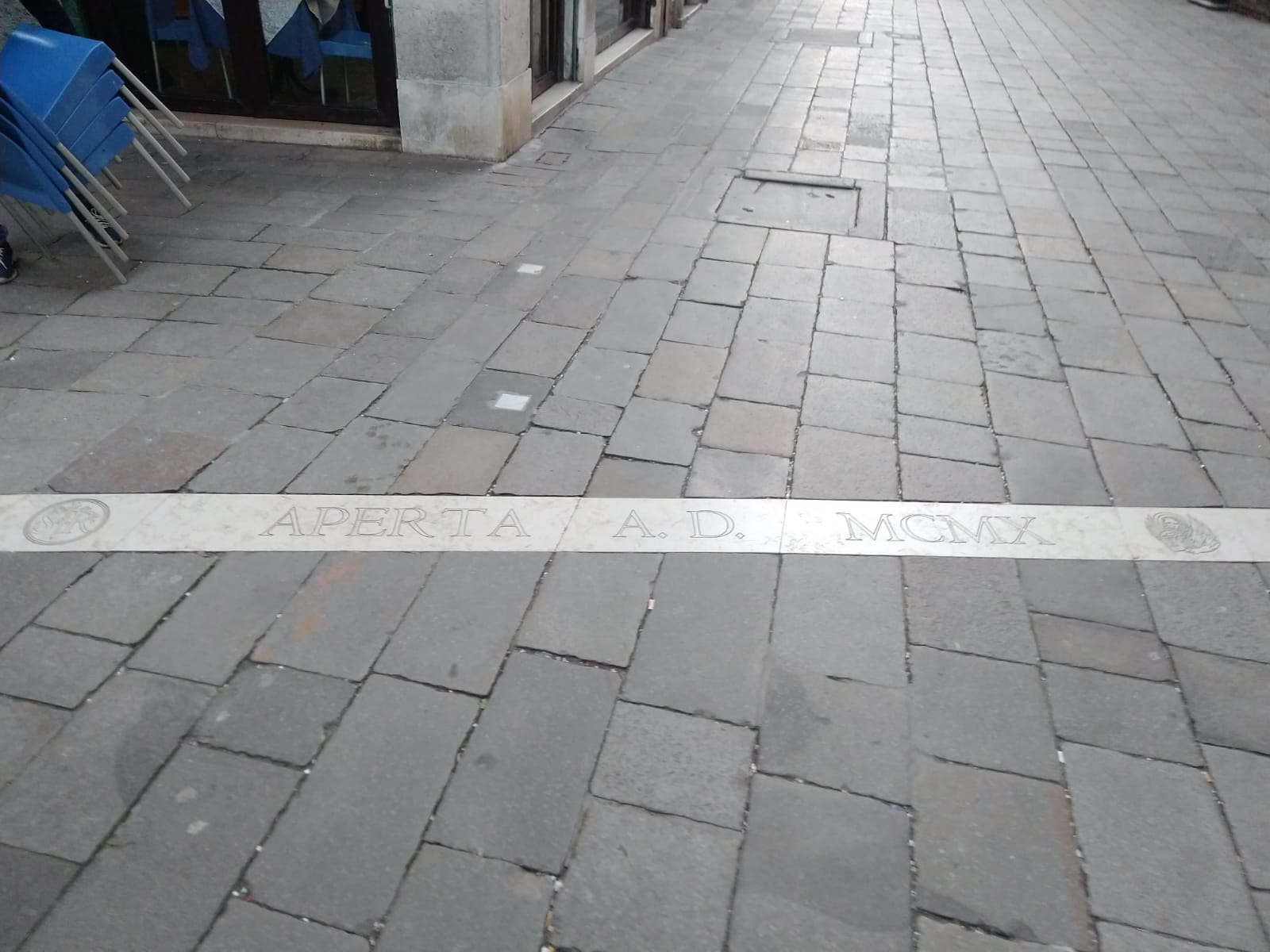 Venice